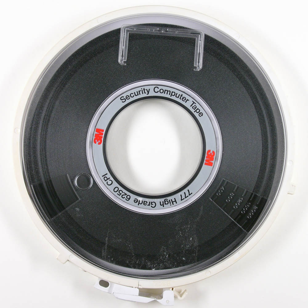 Magnetic tape, 3M, 6250 CPI for computer tape drives, used as storage media between 1970 and 1990